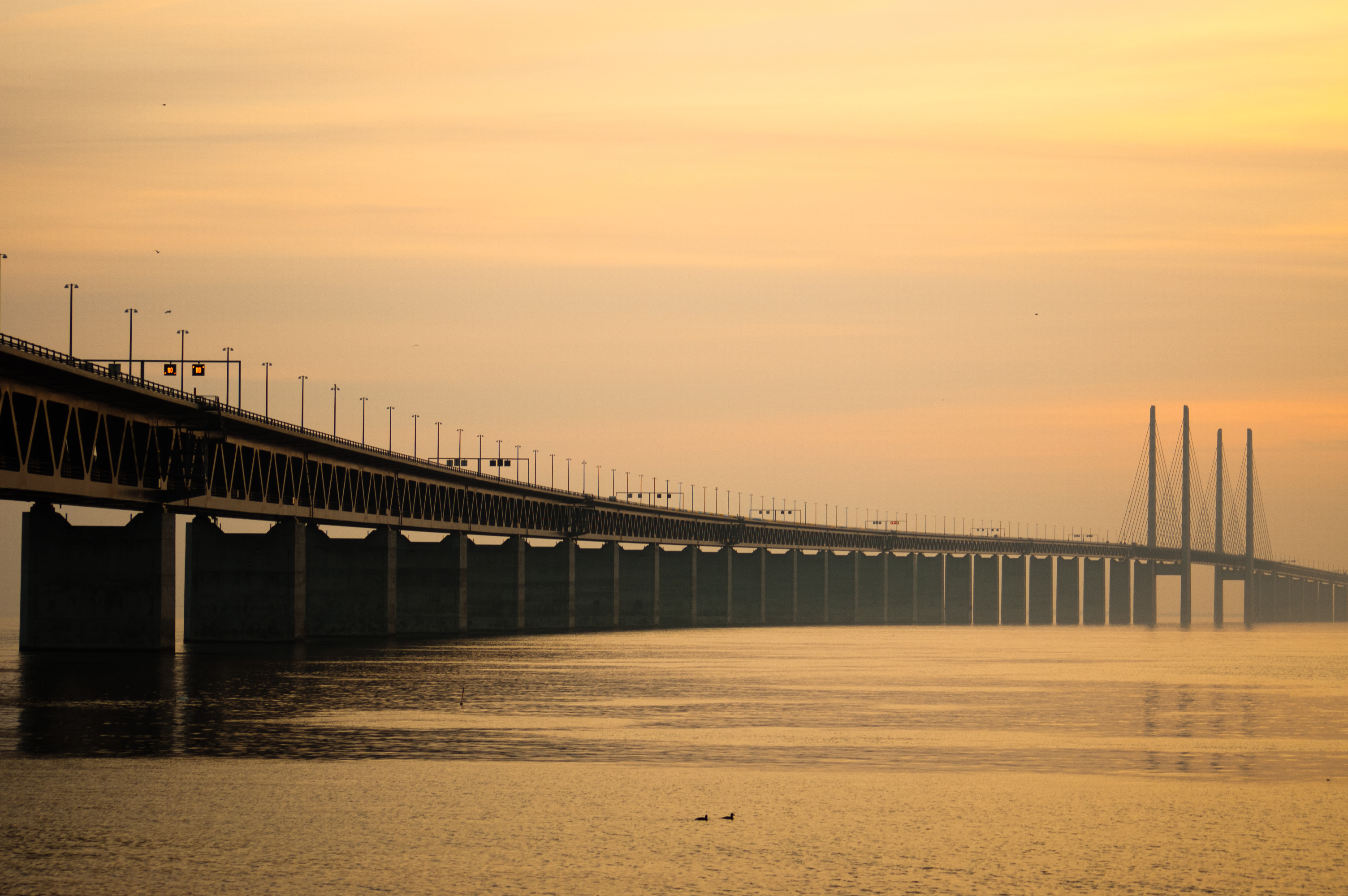 The Öresund Bridge, a conjoined twin-track railway and dual carriageway bridge-tunnel that bind together Denmark and Sweden.